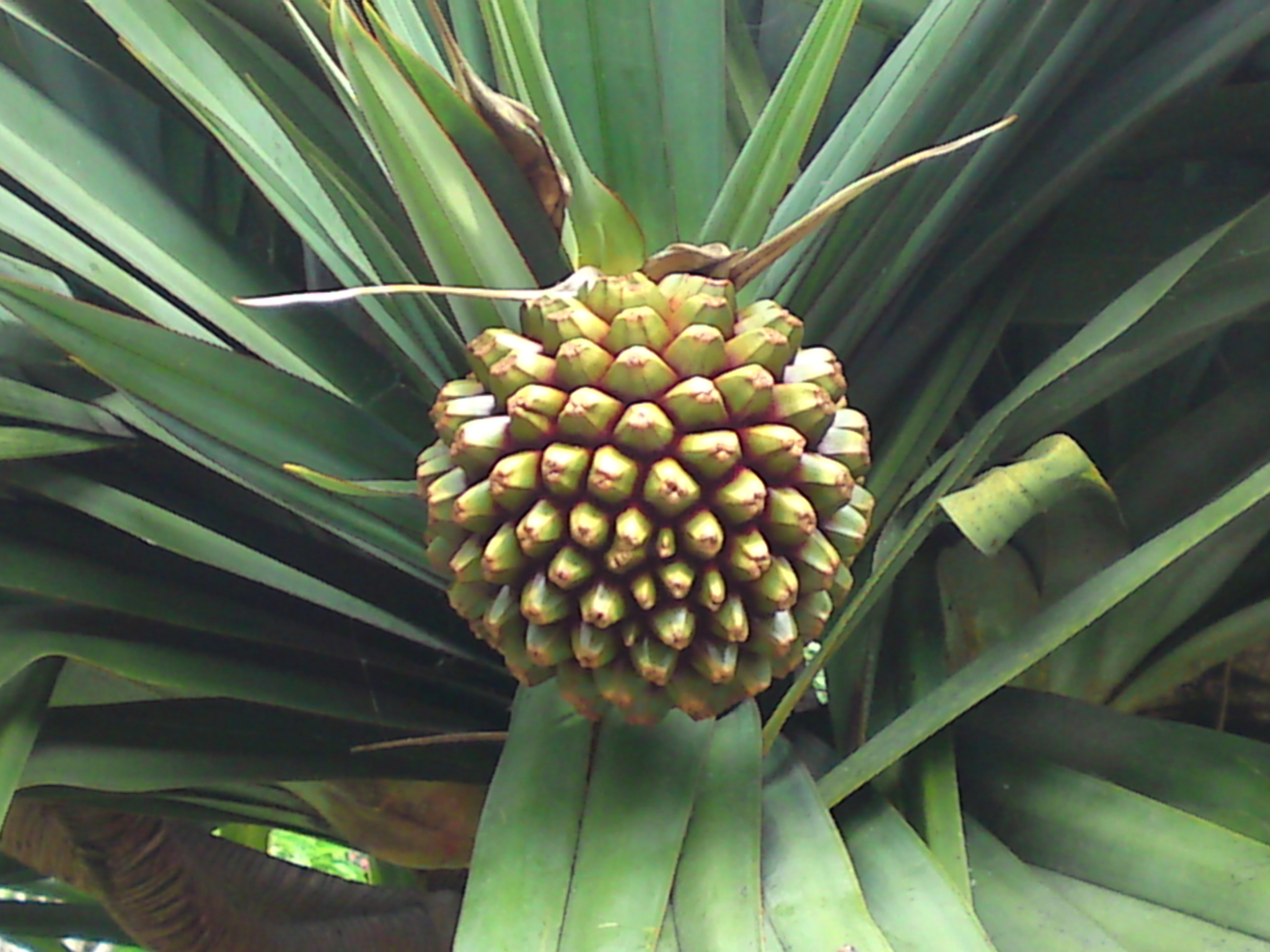 Pandanus utilis, photographed in the Jardín de la Marquesa de Arucas, Arucas, Gran Canaria